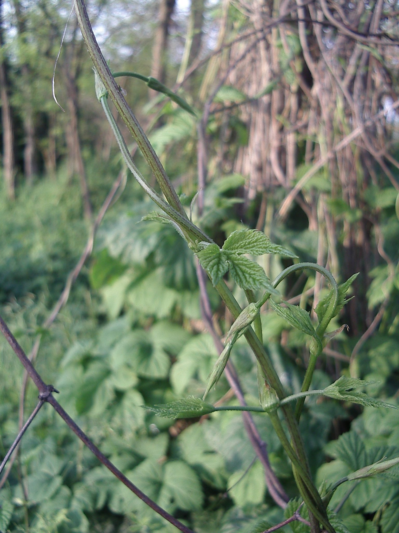 Young plant of Humulus lupulus